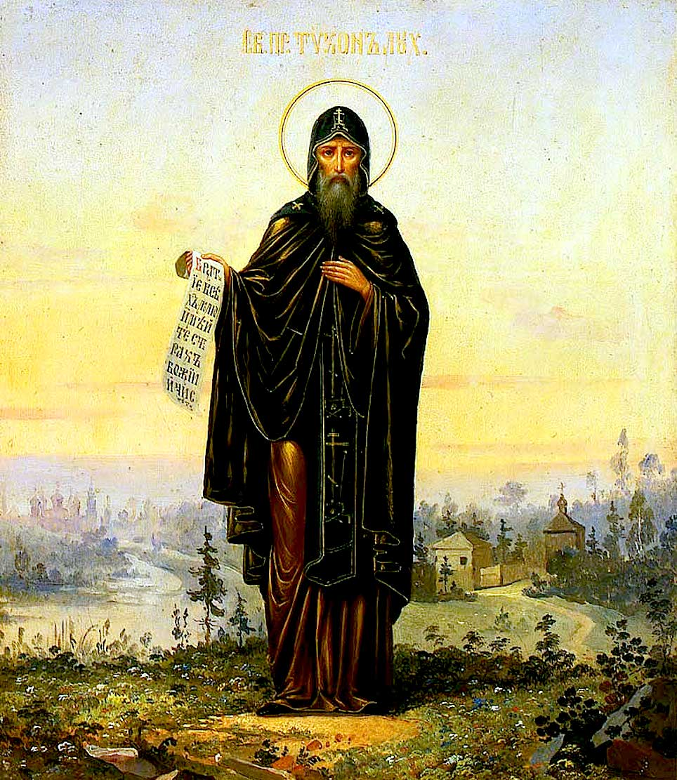 Icon of St. Tikhon Lukhovsky. The beginning of the 20th century. State Museum of Palekh Art, Palekh, Russia.